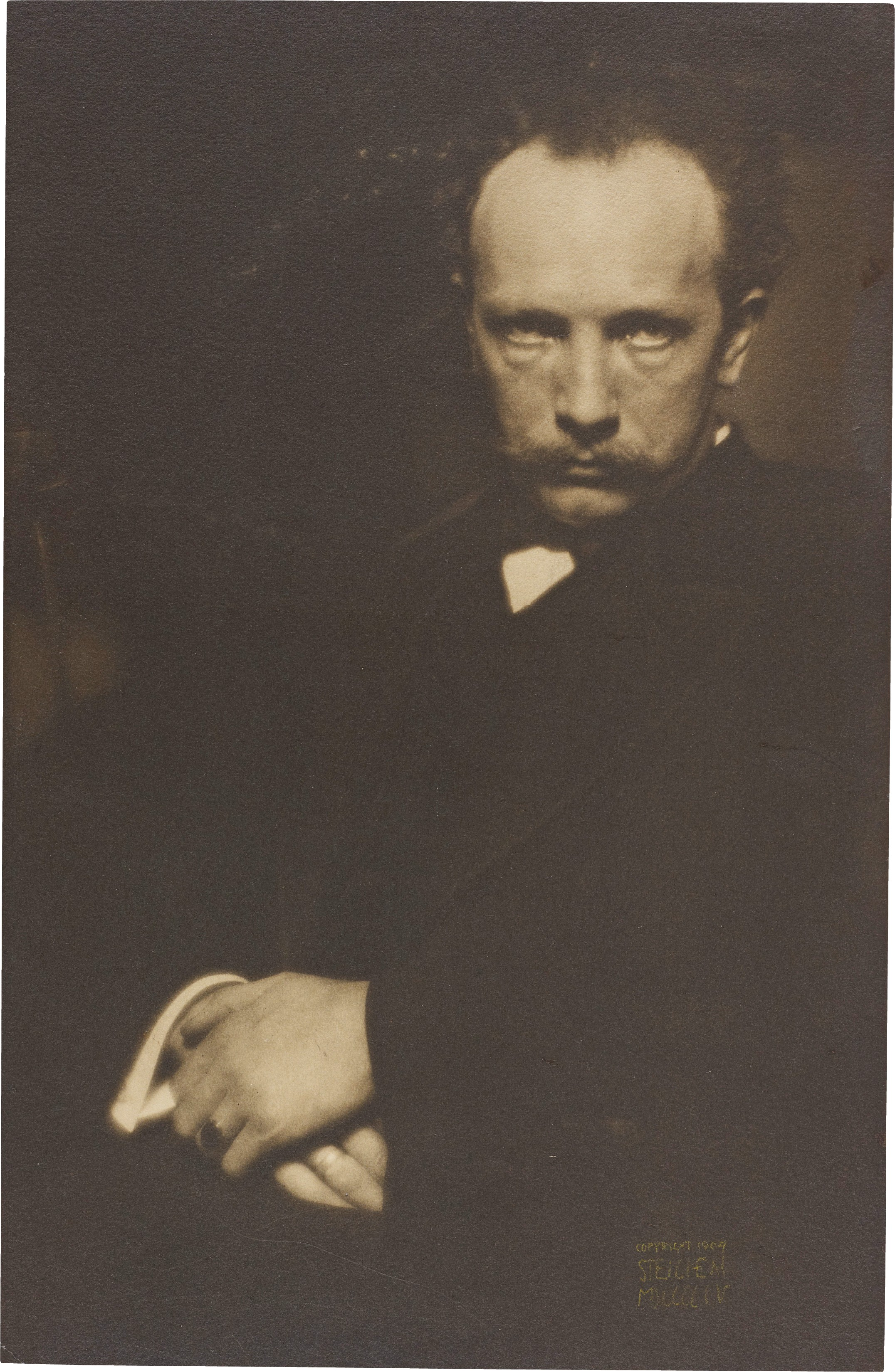 Richard Strauss, New York, gum pigment print